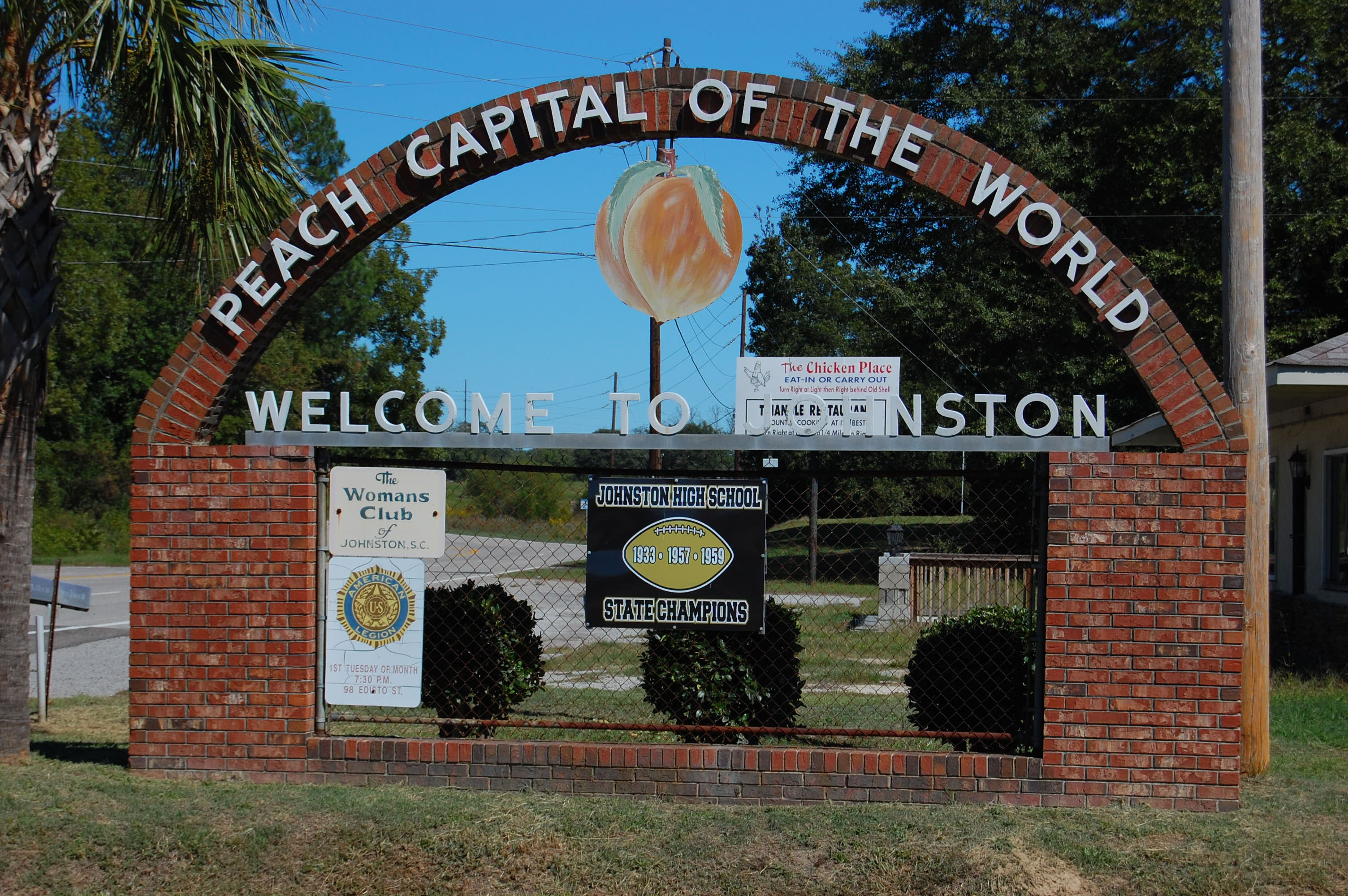 Welcome sign entering Johnston, South Carolina